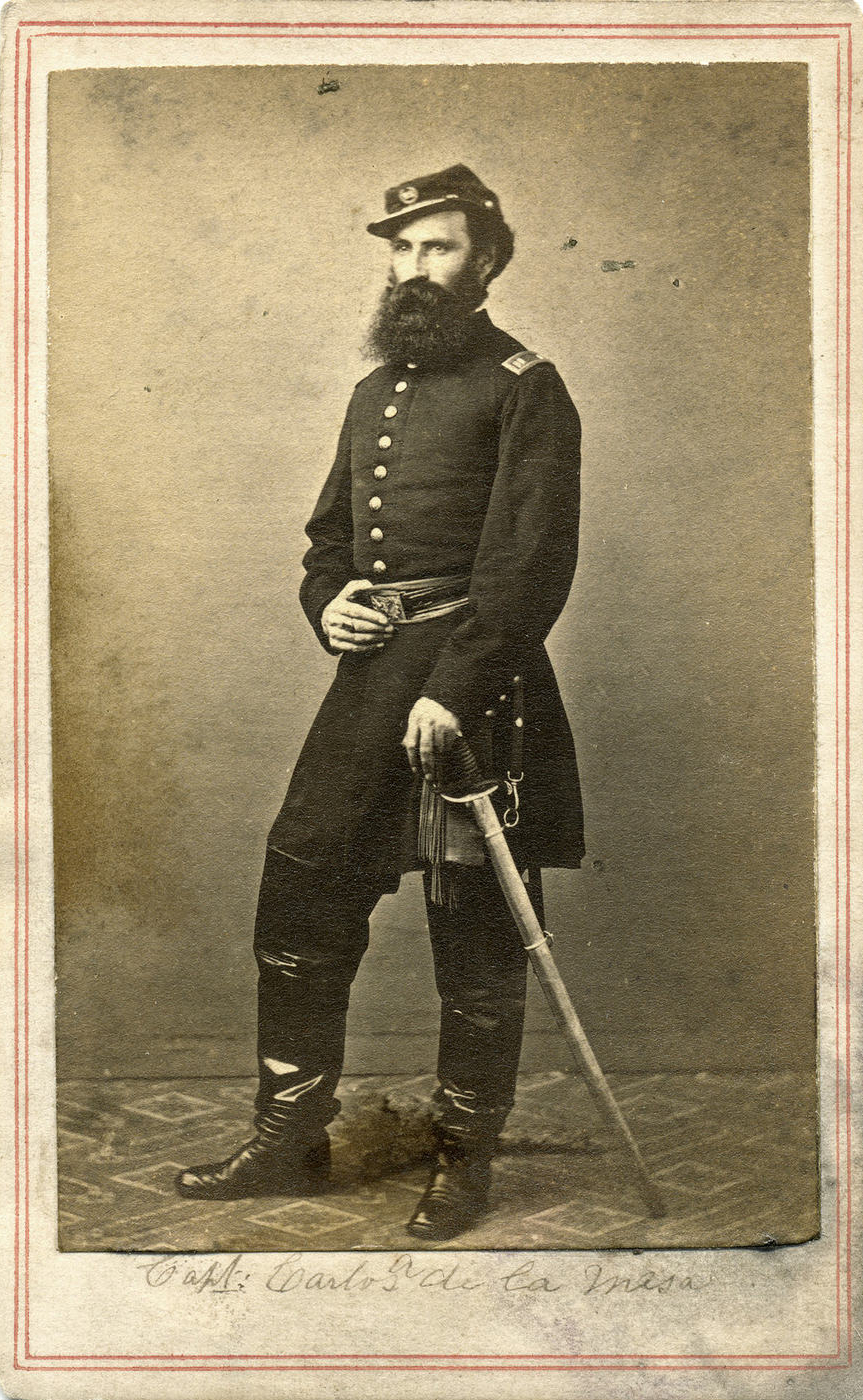 Captain Carlos Alvarez de la Mesa, Company C of the 39th Infantry Regiment, New York's Garibaldi Guards.